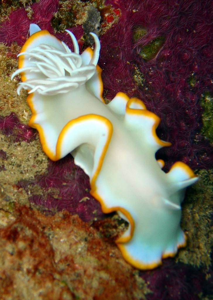 Ardeadoris egretta on the Great Barrier Reef, AustraliaArdeadoris egretta